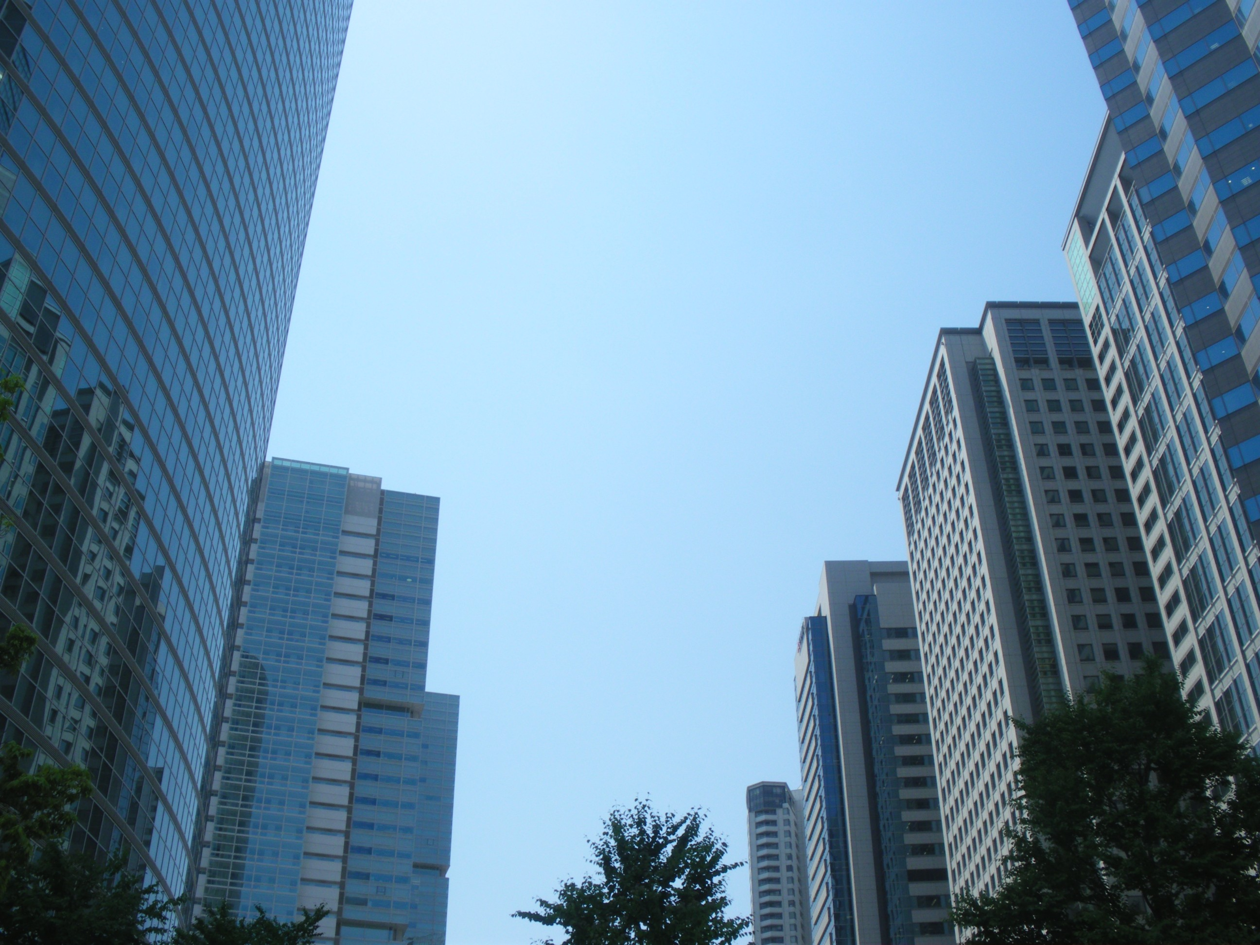 A photo of Shinagawa Intercity(left) and Shinagawa Grandcommons(right),high-rises in front of Shinagawa station. Minato-ku,Tokyo,Japan.